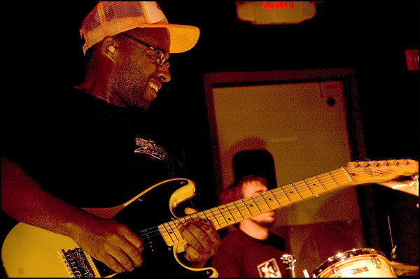 Chuck Treece playing guitar